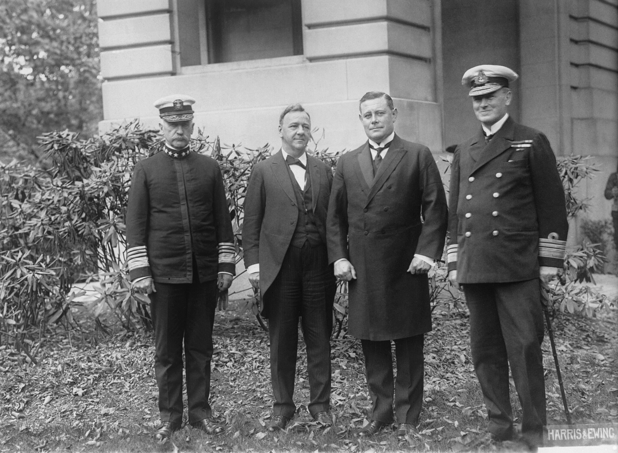 The Royal Navy in the Home Waters, 1914-1918 Admiral William S Benson, US Navy, with Mr Daniels, Sir Eric Geddes, Admiral Alexander Duff, Royal Navy.